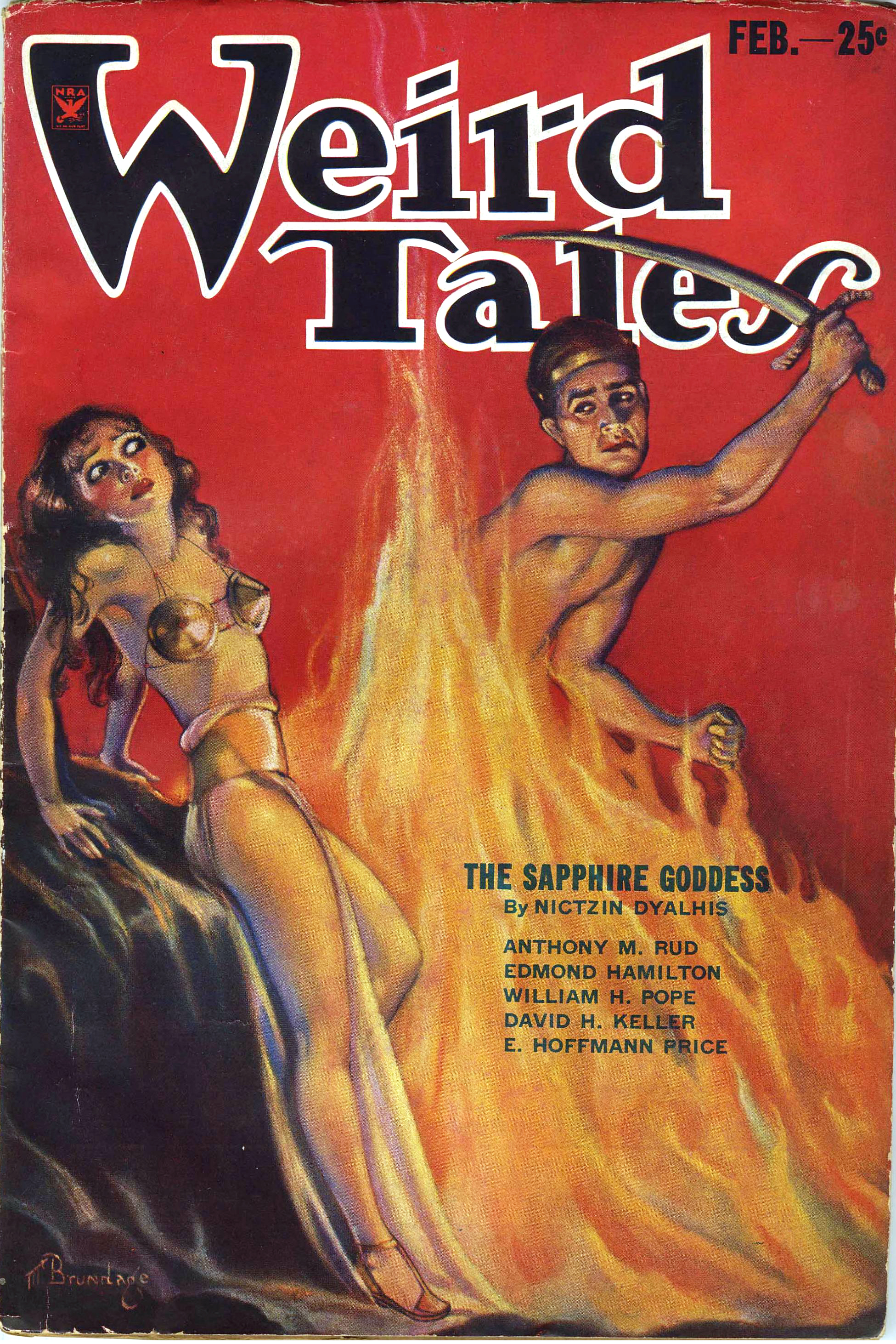 Cover of the pulp magazine Weird Tales (February 1934, vol. 23, no. 2) featuring The Sapphire Goddess by Nictzin Dyalhiz. Cover by Margaret Brundage.